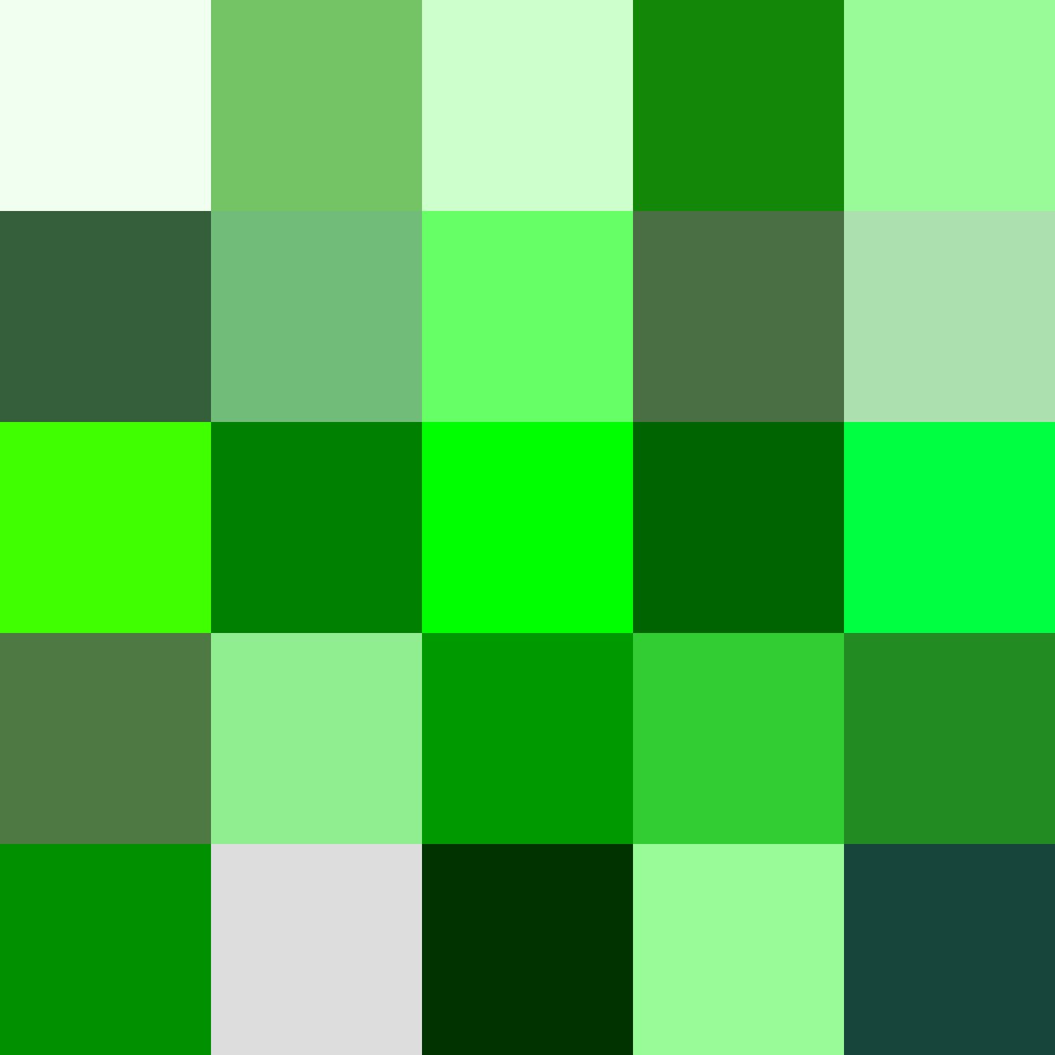 Edited version of Image:Color_icon_blue.svg.